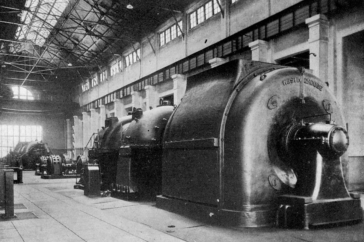 Generator of Kasugade second power station.